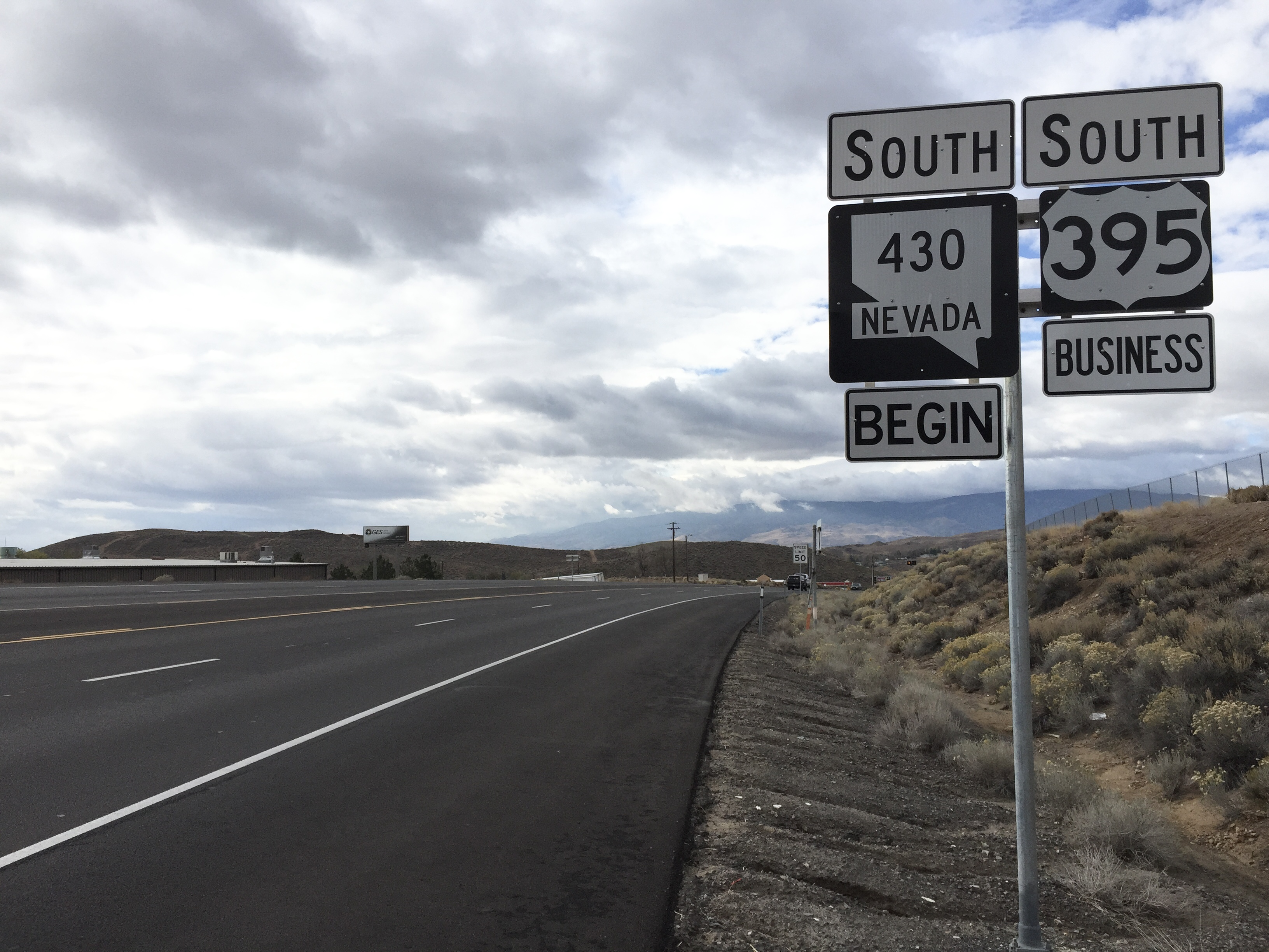 View south from the north end of Nevada State Route 430 and U.S. Route 395 Business (Virginia Street) in Reno, Nevada